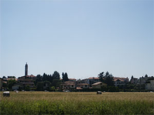 Crenna hill - Gallarate (VA)